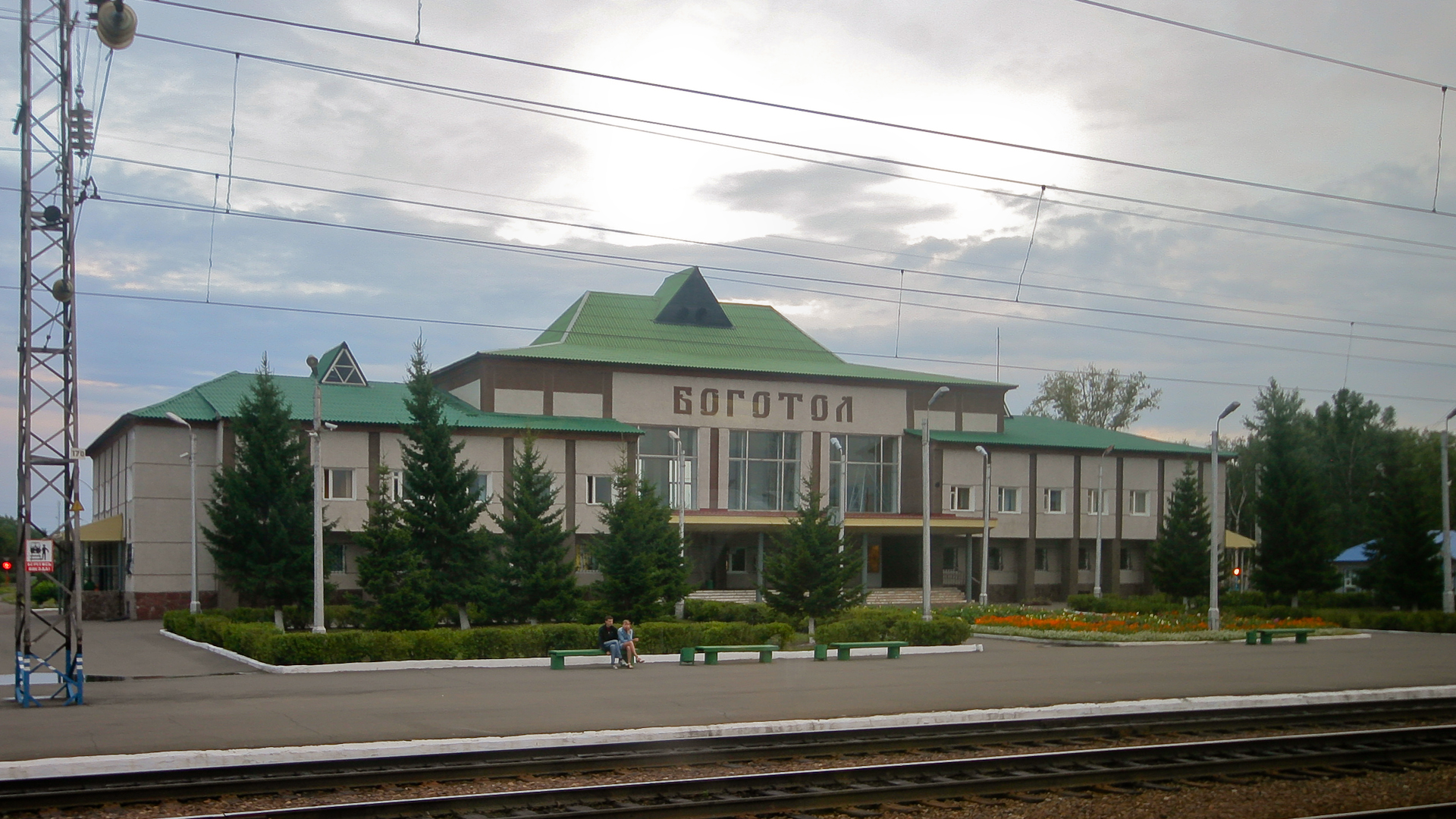 Bogotol train station.